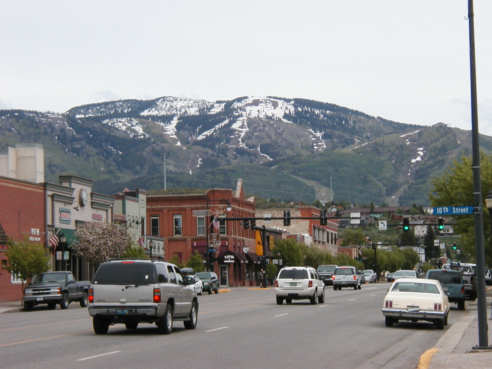 Downtown Steamboat Springs at the end of May; the mountain has still large patches of snow; original title: "Downtown Steamboat Springs", original description: "There's still snow on the mountain at the end of May"